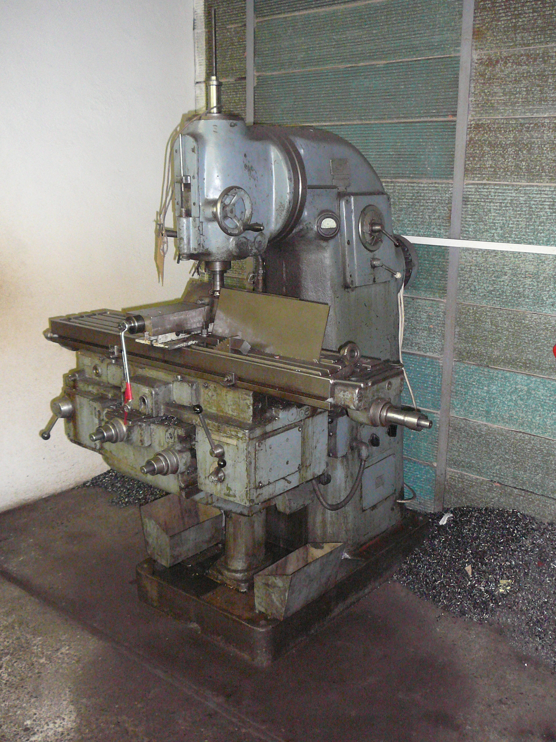 Milling machine, locksmithery Oldřich Vaňhara, Fryšták